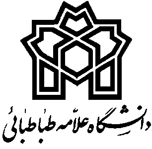 Allameh_university logo